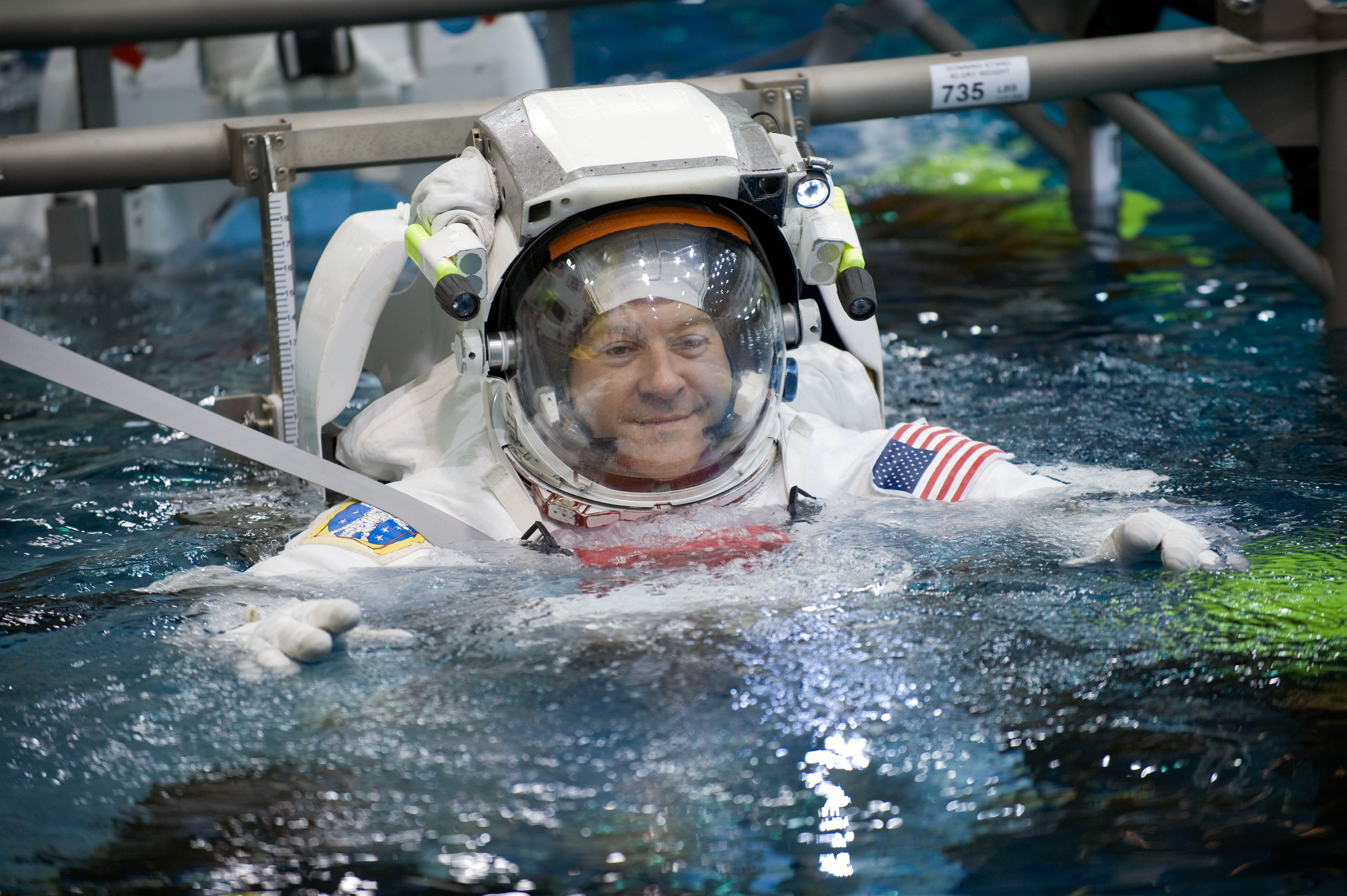 Astronaut Nicholas Patrick, STS-130 mission specialist, attired in a training version of his Extravehicular Mobility Unit (EMU) spacesuit, is submerged in the waters of the Neutral Buoyancy Laboratory (NBL) near NASA's Johnson Space Center. SCUBA-equipped divers (out of frame) are in the water to assist Patrick in his rehearsal, intended to help prepare him for work on the exterior of the International Space Station.